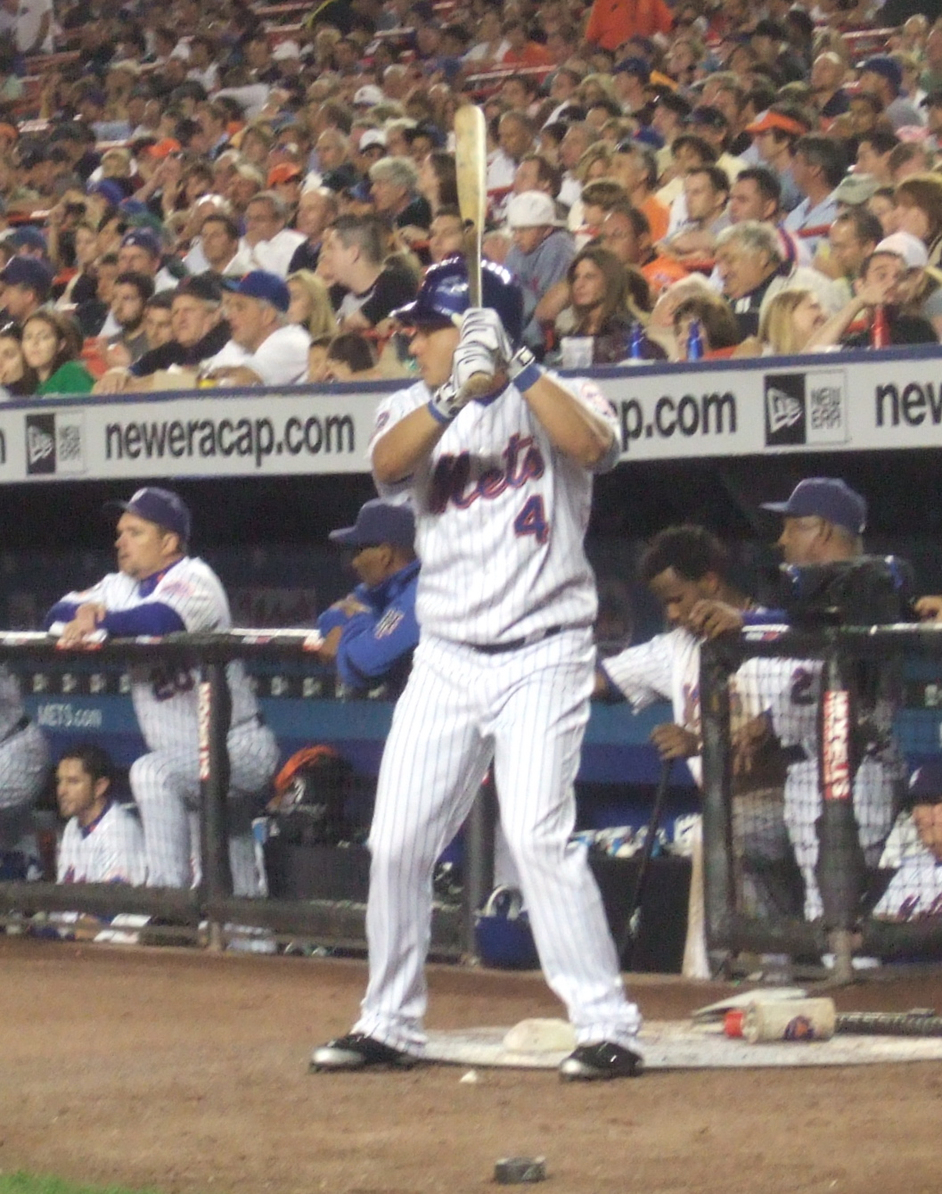 Professional baseball player Argenis Reyes of the New York Mets, playing in Shea Stadium, 2008-09-10